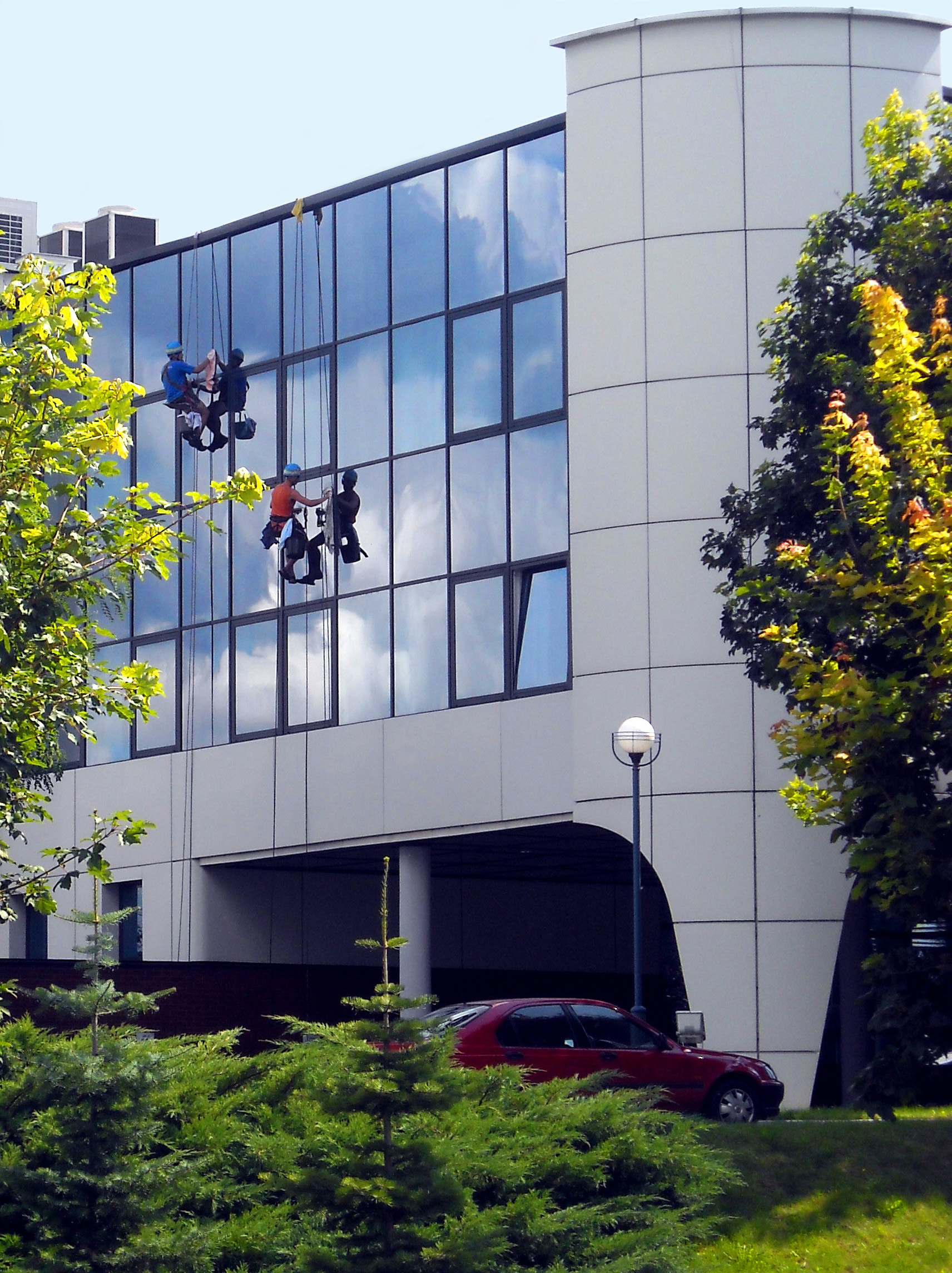 Gasworks at the Olszewskiego Street in Wrotków district, Lublin